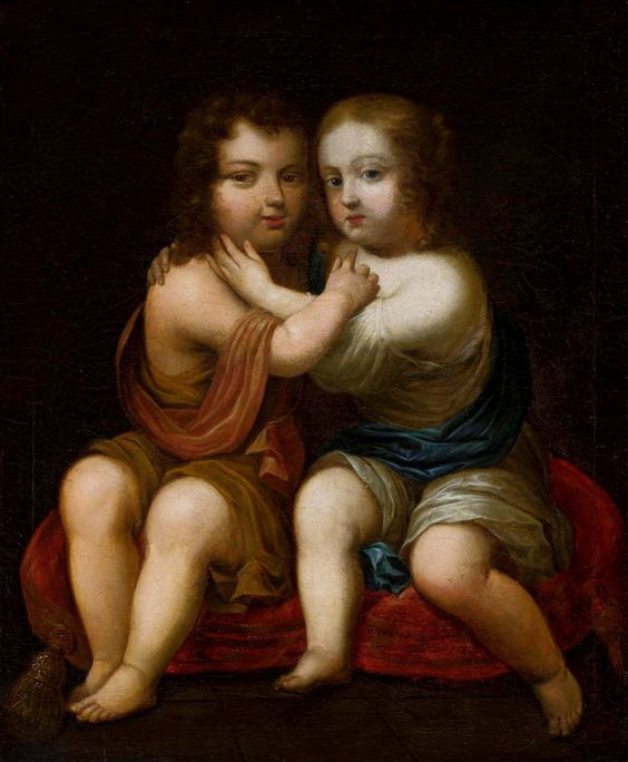 It is erroneous the identification of second sitter as a young Henrietta of England because she was born in 1644 and Louis XIV of France six years before in 1638.